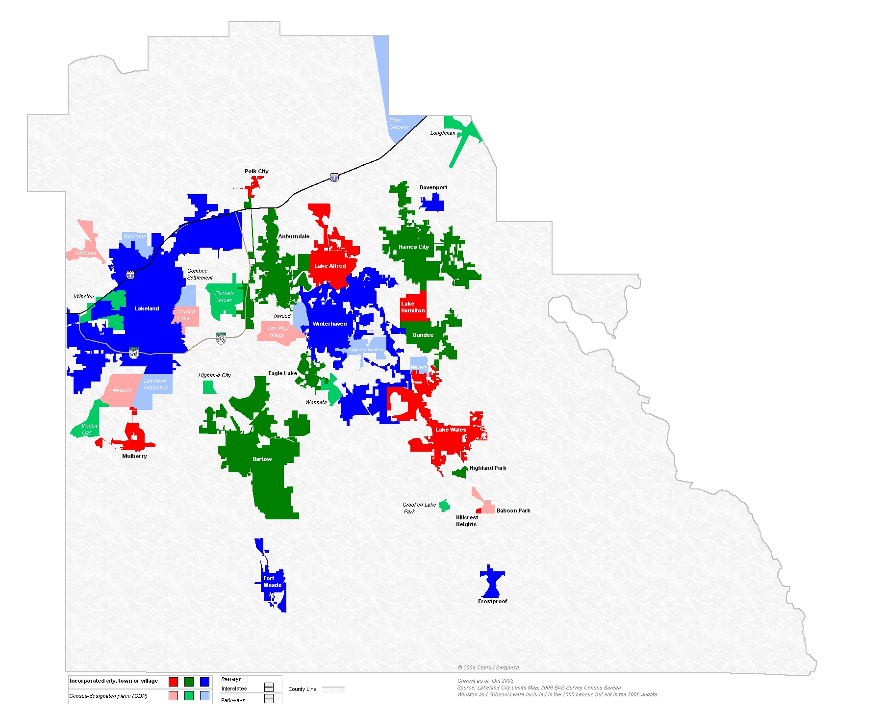 An updated map of the cities within Polk County and their city limits as of 2008